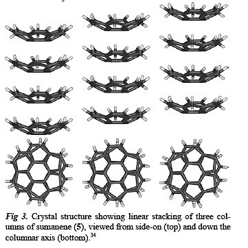 WaseemFig6